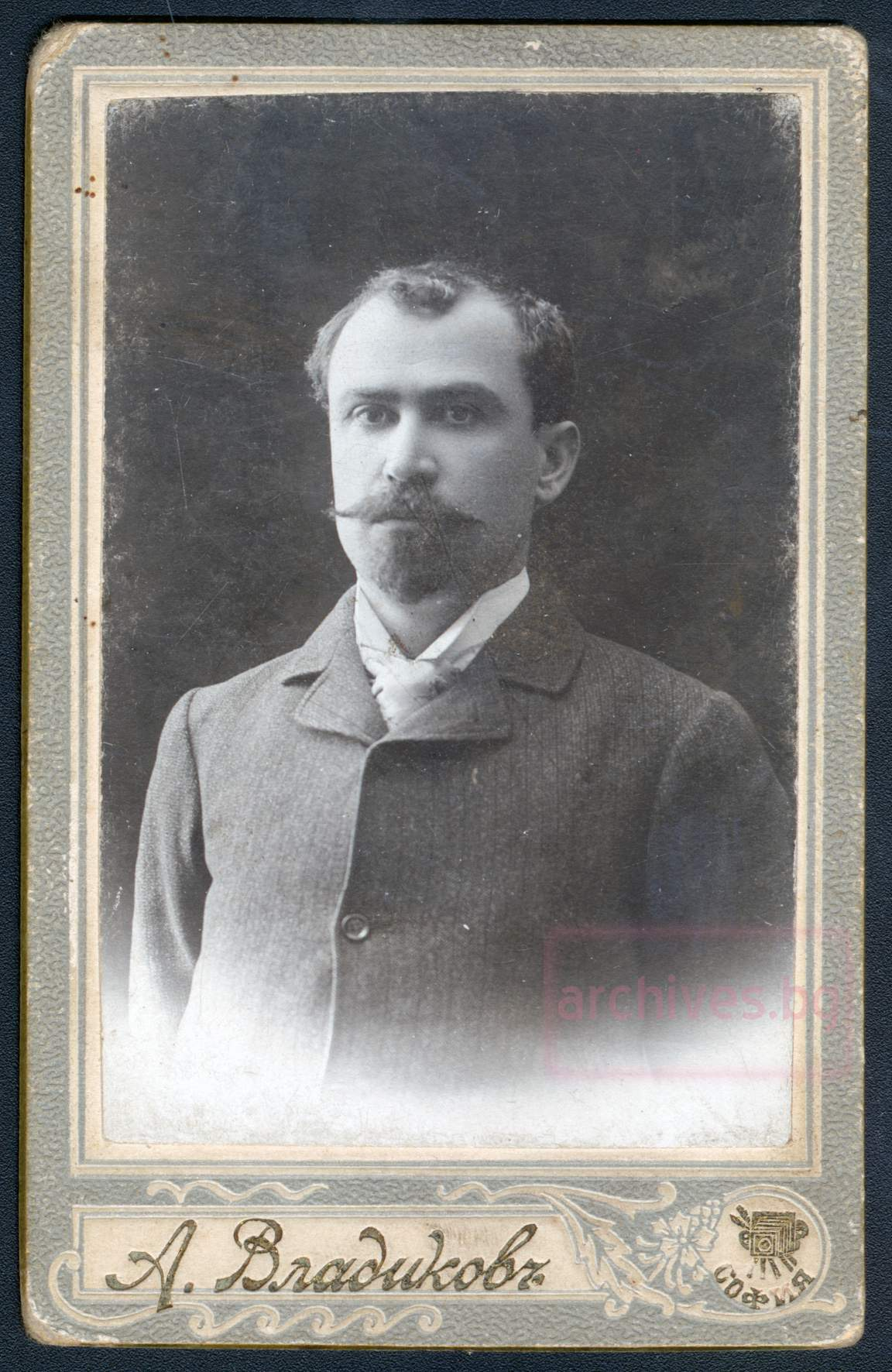 Georgi Palashev 12 February 1904